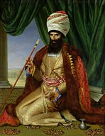 Portrait of Asker-Khan, Ambassador of Persia